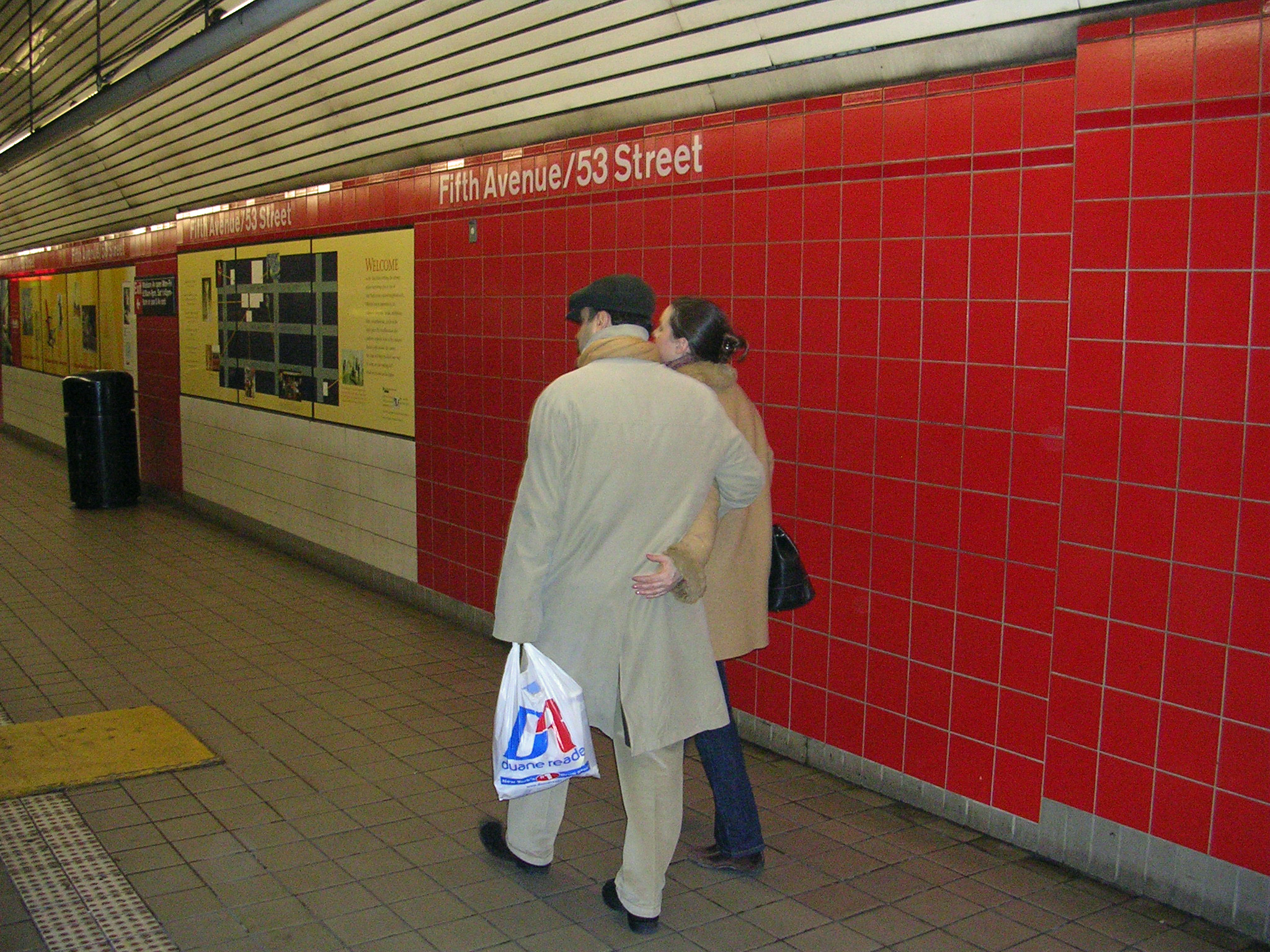 5th Ave and 53rd Street Station Subway Station by David Shankbone, January 15, 2007.